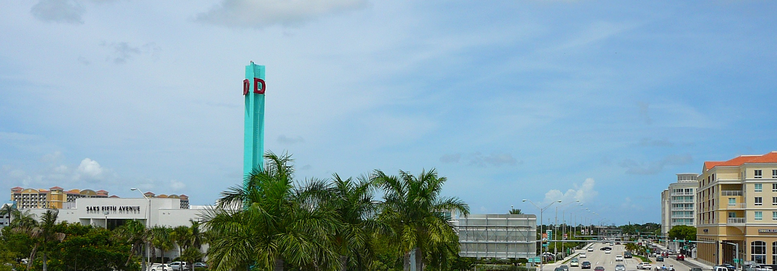 Partial view of Dadeland Mall in Kendall as seen from the Palmetto Expressway northbound. 7/10/2008.